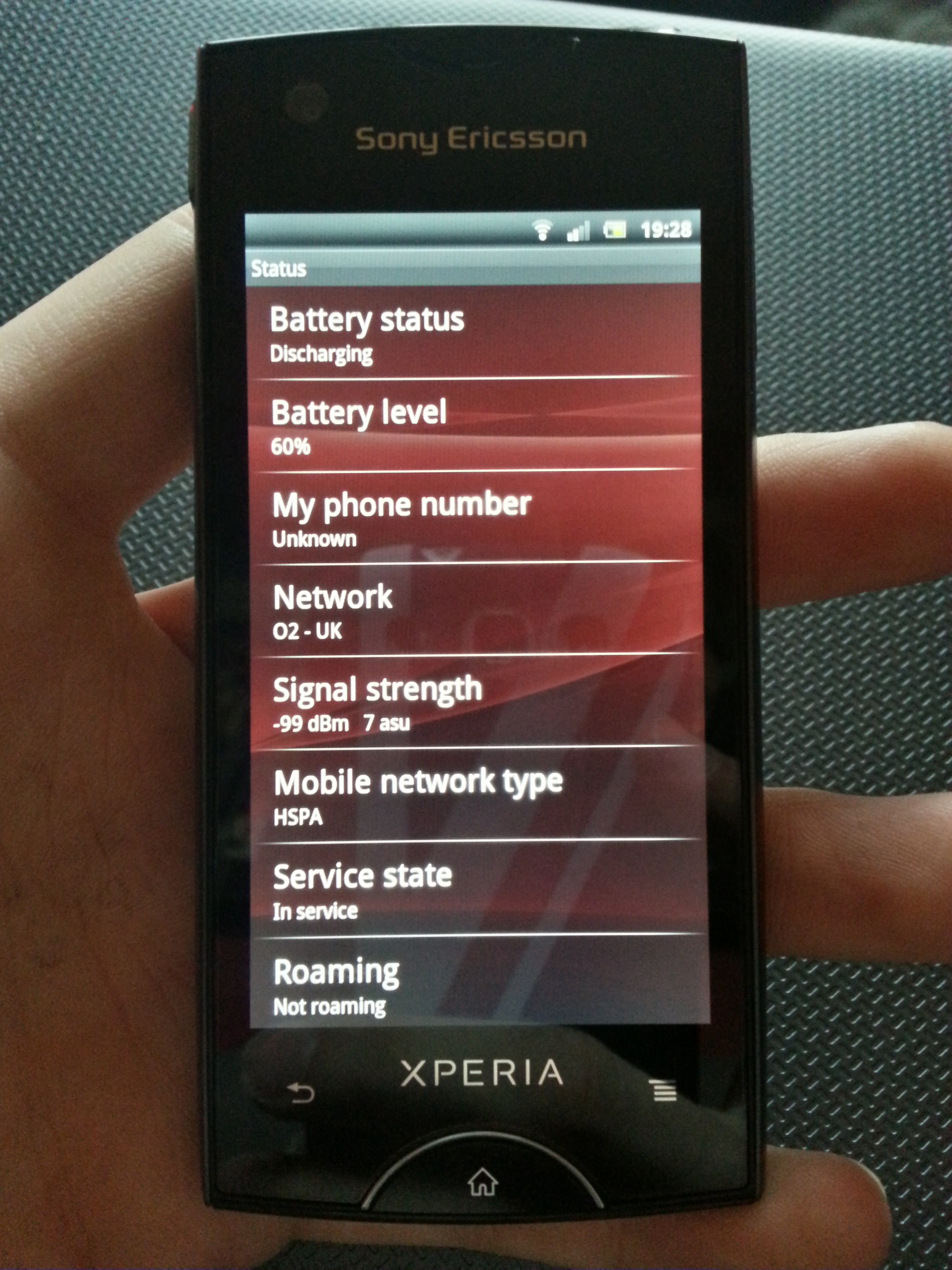 It's an image of an unlocked Sony Ericsson Xperia ray.